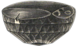 Koh-i-Noor in its old form, before 1852